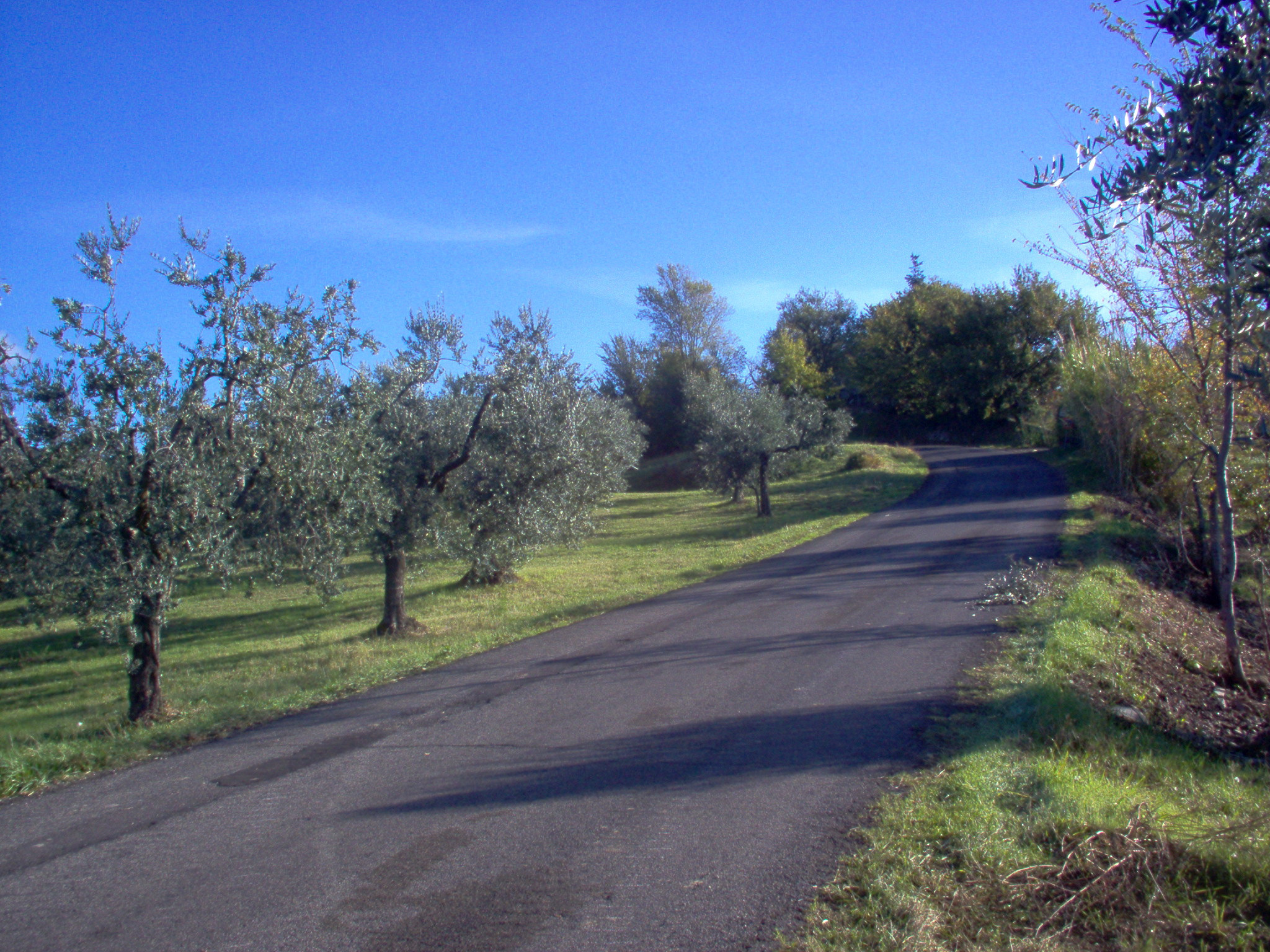 Ulive trees on the street which links Salisano (province of Rieti, central Italy) to provincial road n. 42 "Via Mirtense"